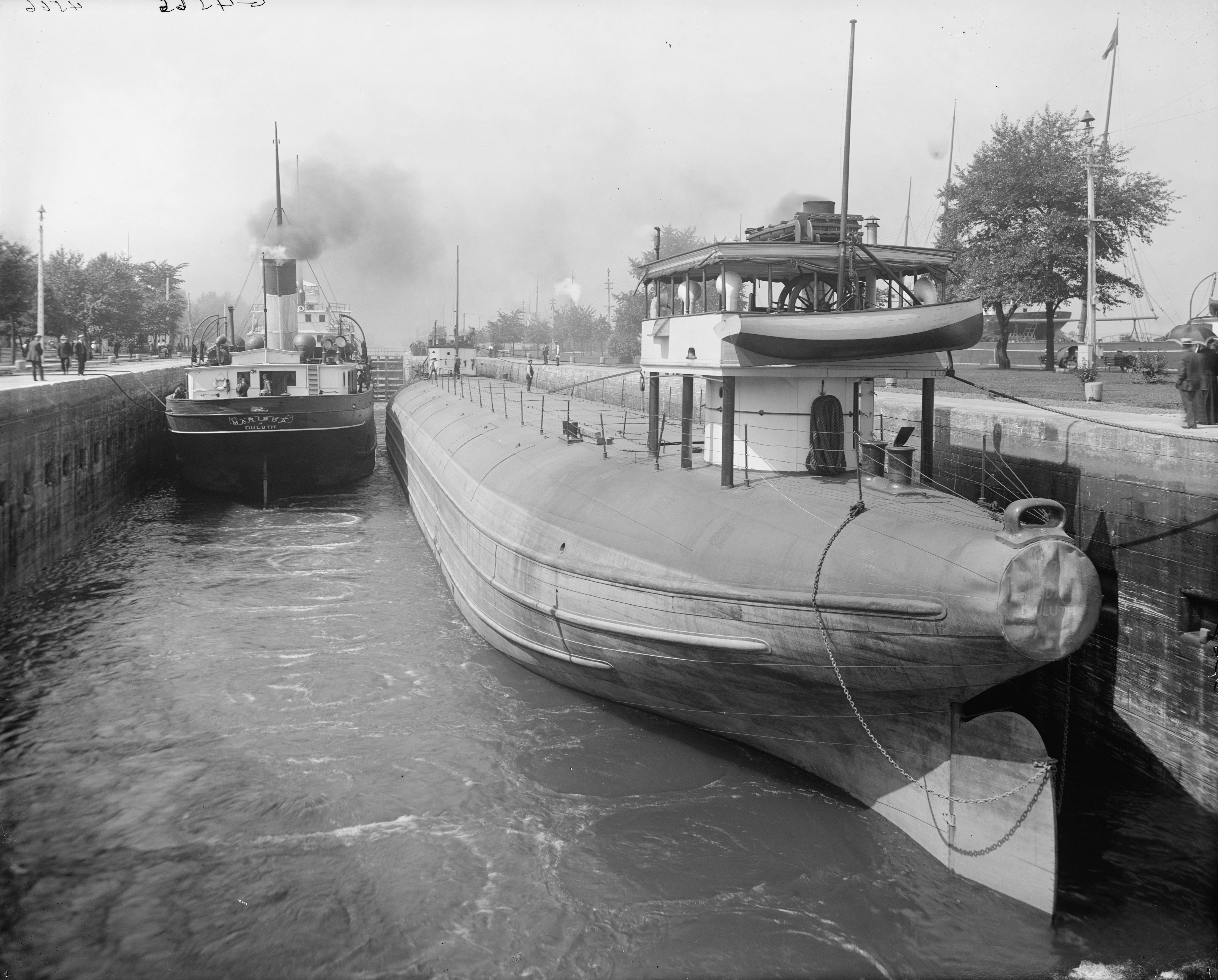 Whaleback Barge 101 in the Weitzel Lock alongside the steamer Mariska